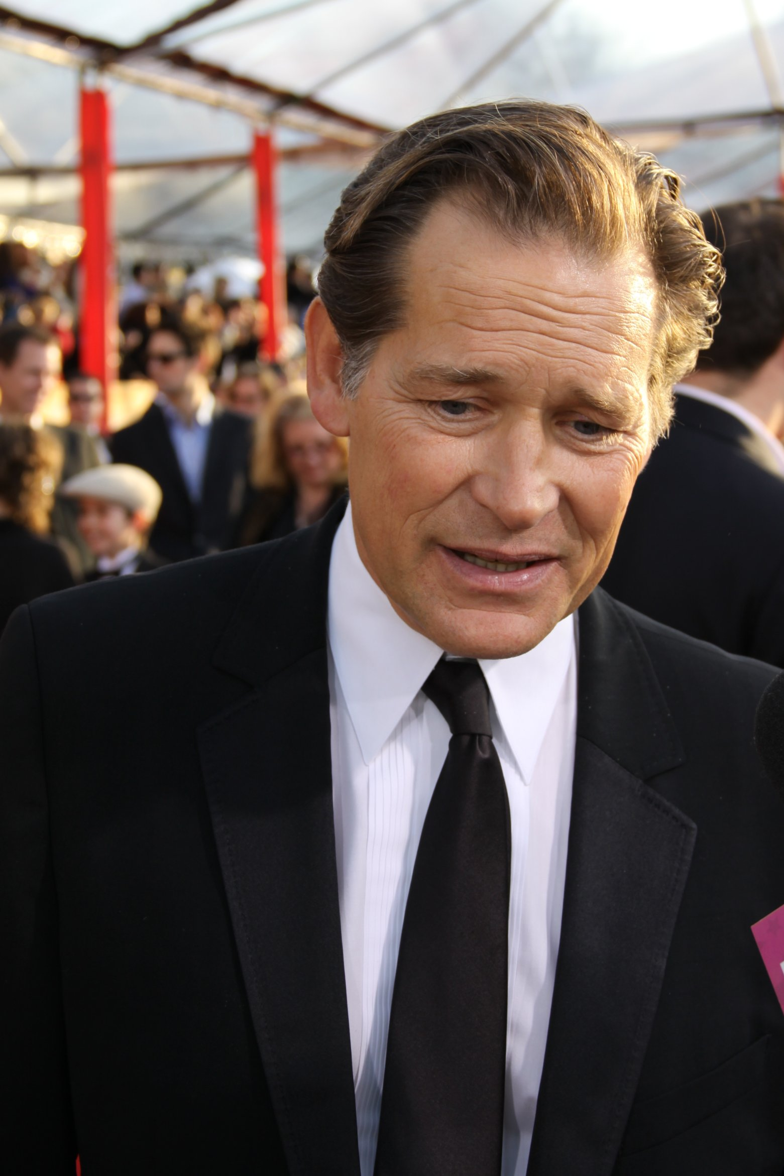 James Remar at the Screen Actors Guild Awards at the Shrine Auditorium on January 23rd, 2010.